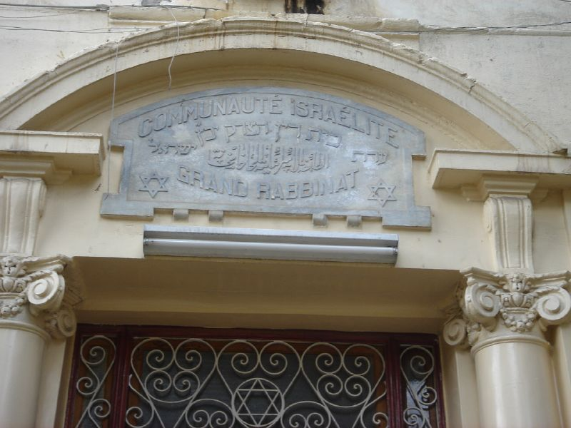 Beth din (Rabbinical Court), Alexandria Jewish community of Egypt. Egypt's Jewish community which numbered 70,000-90,000 at its height (in 1947) now only has a few tens of Jews. The community looks after the cemeteries and the remaining synagogues, but needs moral and financial support.